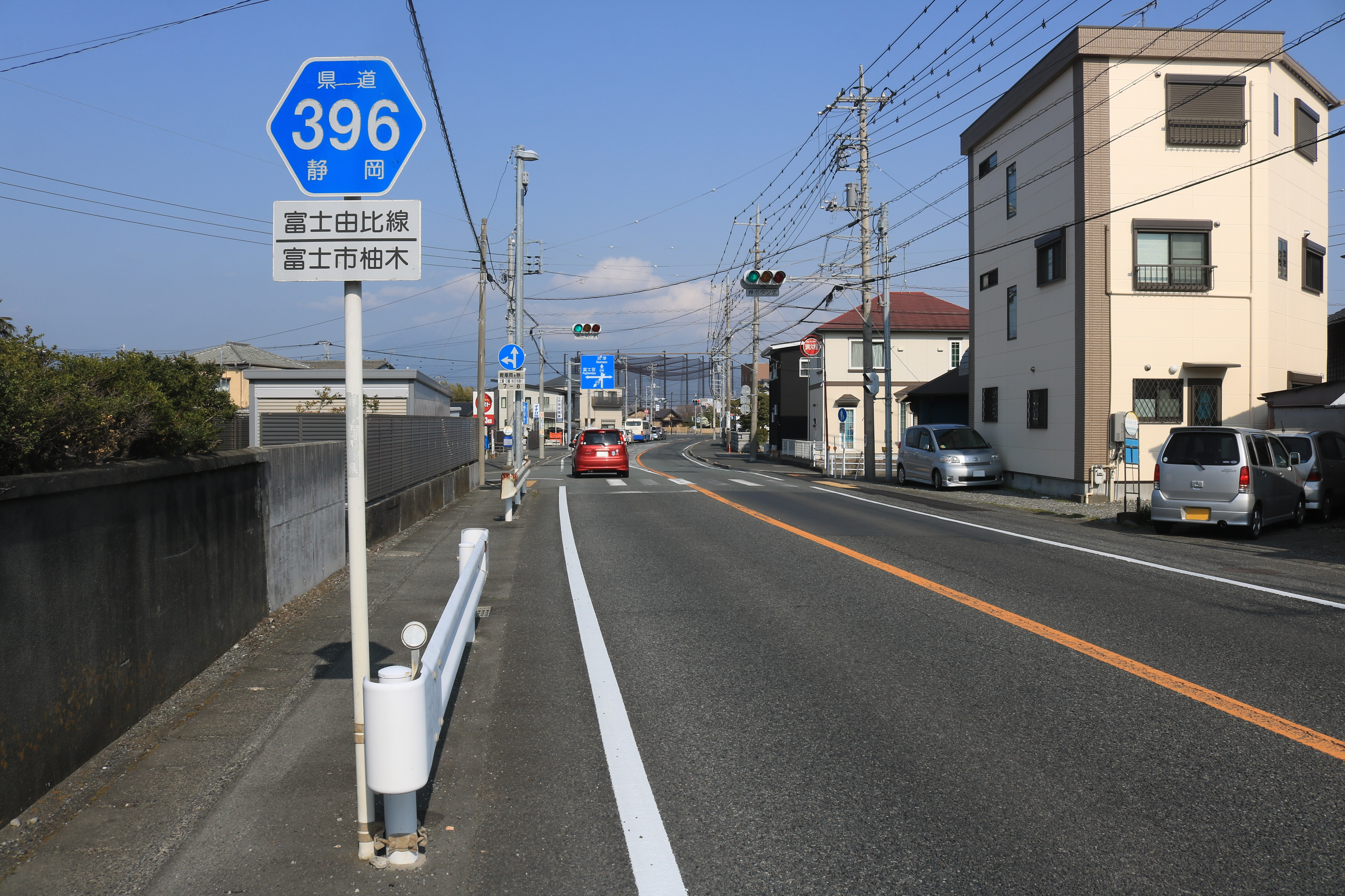 Shizuoka Prefectural Road Route 396, Yunoki, Fuji, Shizuoka Prefecture, Japan.